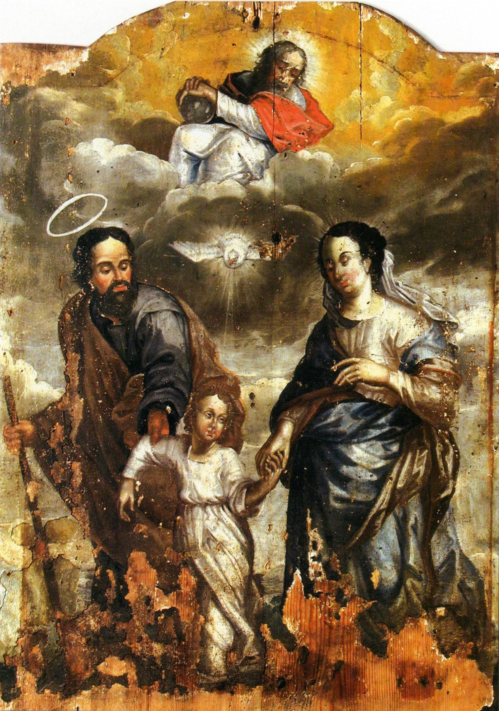 THE HOLY FAMILY. 18th с. Wood, tempera. St. Vatslau's Catholic Church, Vaukavysk, Grodna region. Restoration - A. Malinowski team.